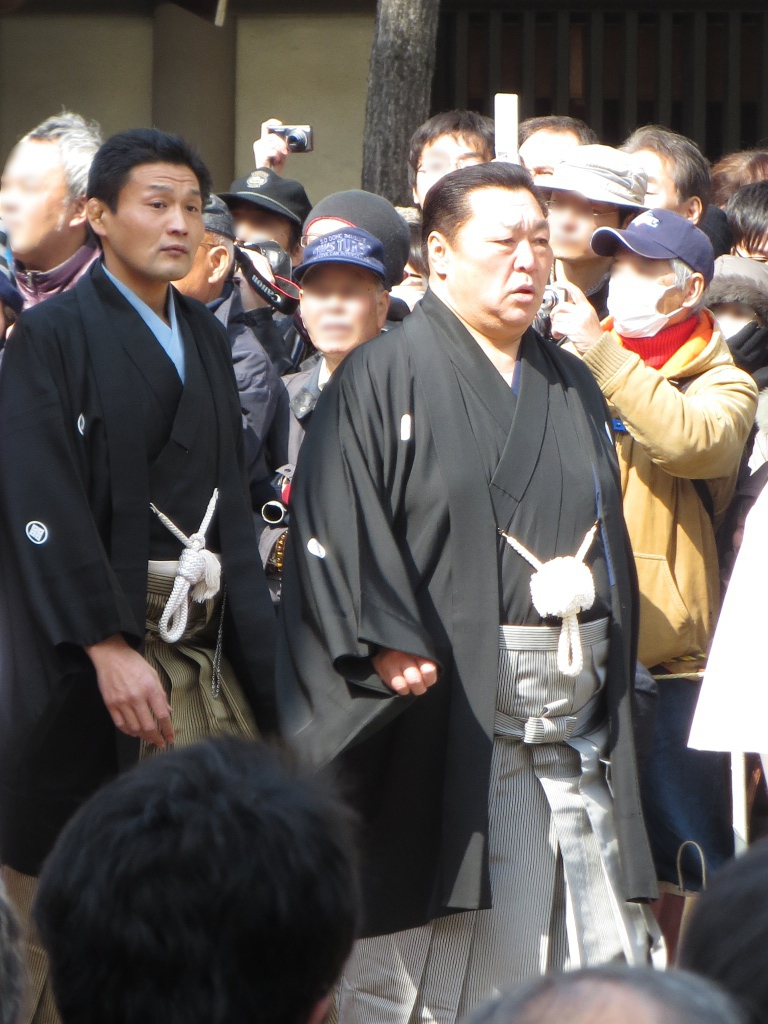 Kitanoumi Toshimitsu and Takanohana Kōji in Sumiyoshi taisha.